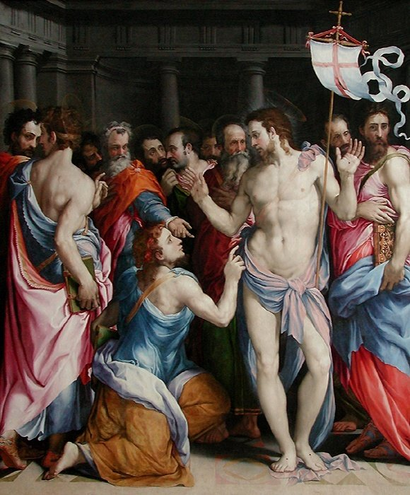 Francesco de' Rossi's painting 'The Doubting of St. Thomas'